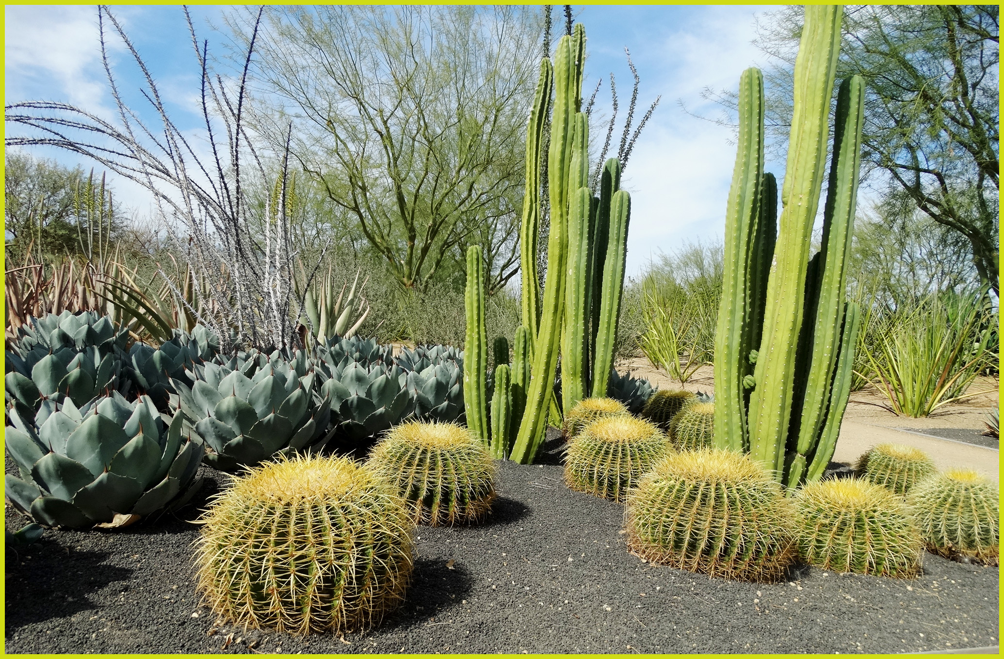 (1 in a multiple picture set) I got down low for this picture of three different species of cacti. There is artichoke, barrel, and organ pipe here.